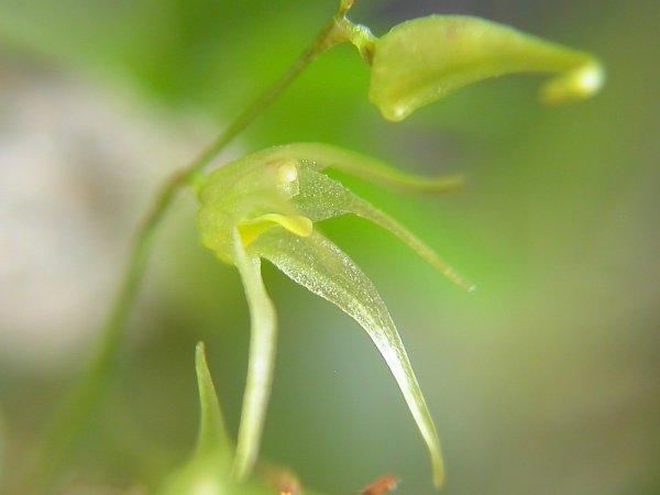 Anathallis